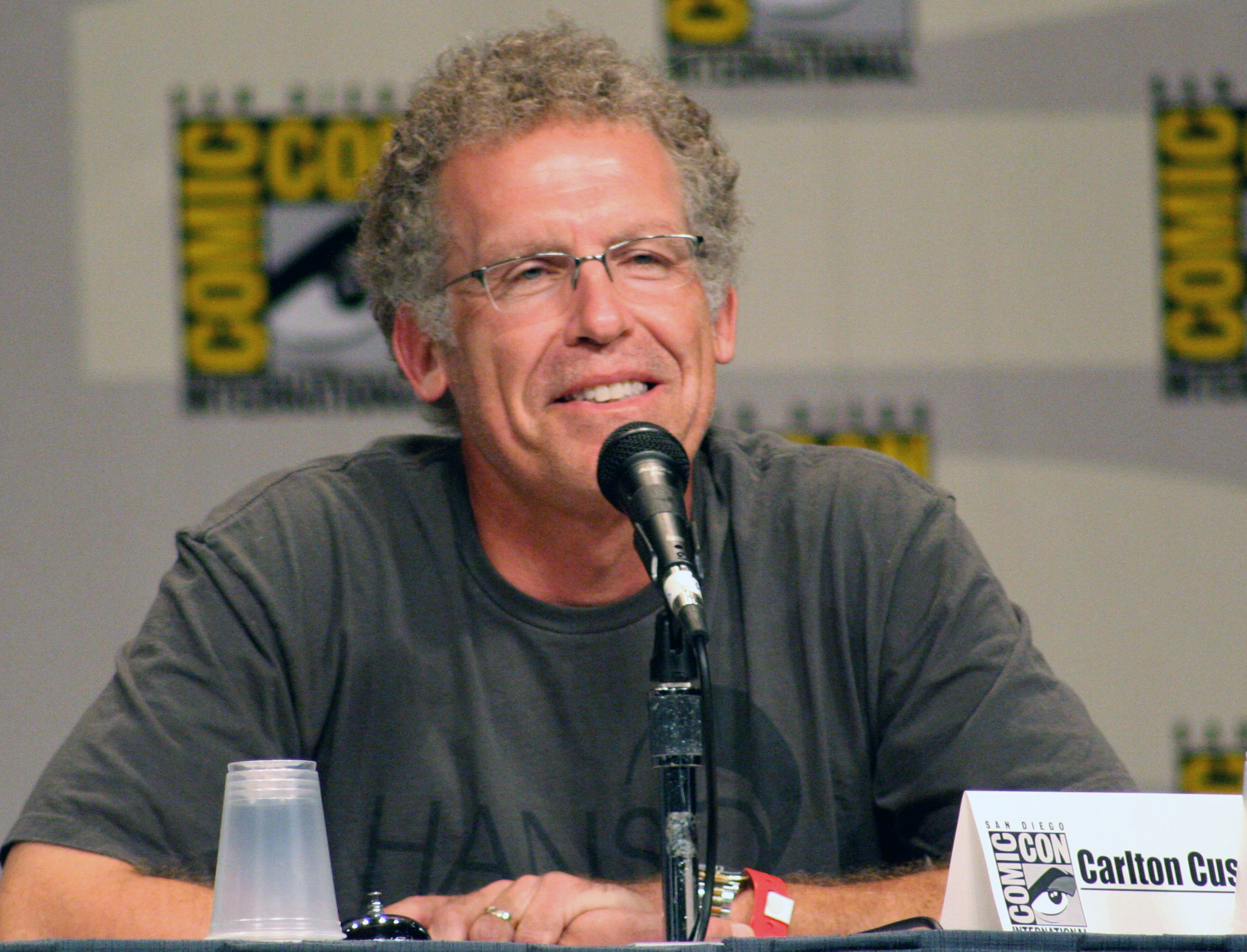 Carlton Cuse at the Comic-con LOST Panel.